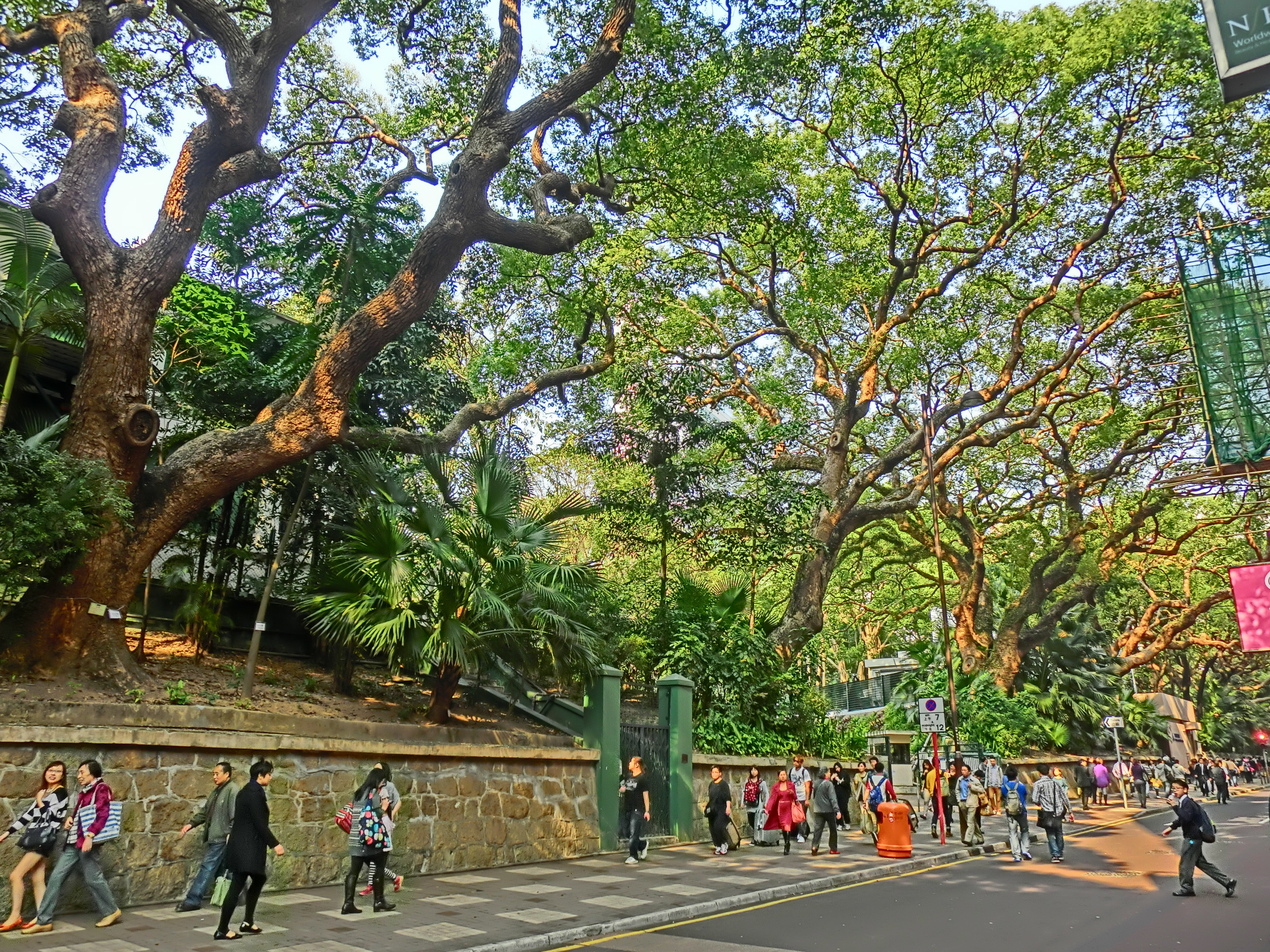 尖沙咀海防道九龍公園樟樹, Trees in Kowloon Park, Haiphong Road, Tsim Sha Tsui, Hong Kong